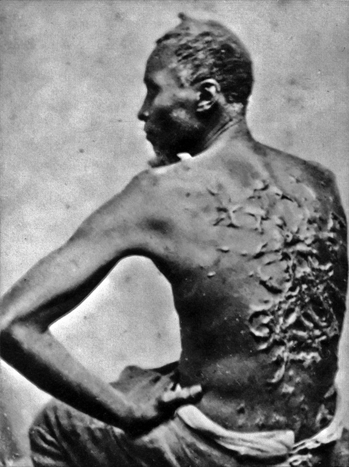 Scars of a whipped slave (April 2, 1863, Baton Rouge, Louisiana, USA). Original caption: "Overseer Artayou Carrier whipped me. I was two months in bed sore from the whipping. My master come after I was whipped; he discharged the overseer. The very words of poor Peter, taken as he sat for his picture.". This is a different photograph than the other ones, it is not cropped.